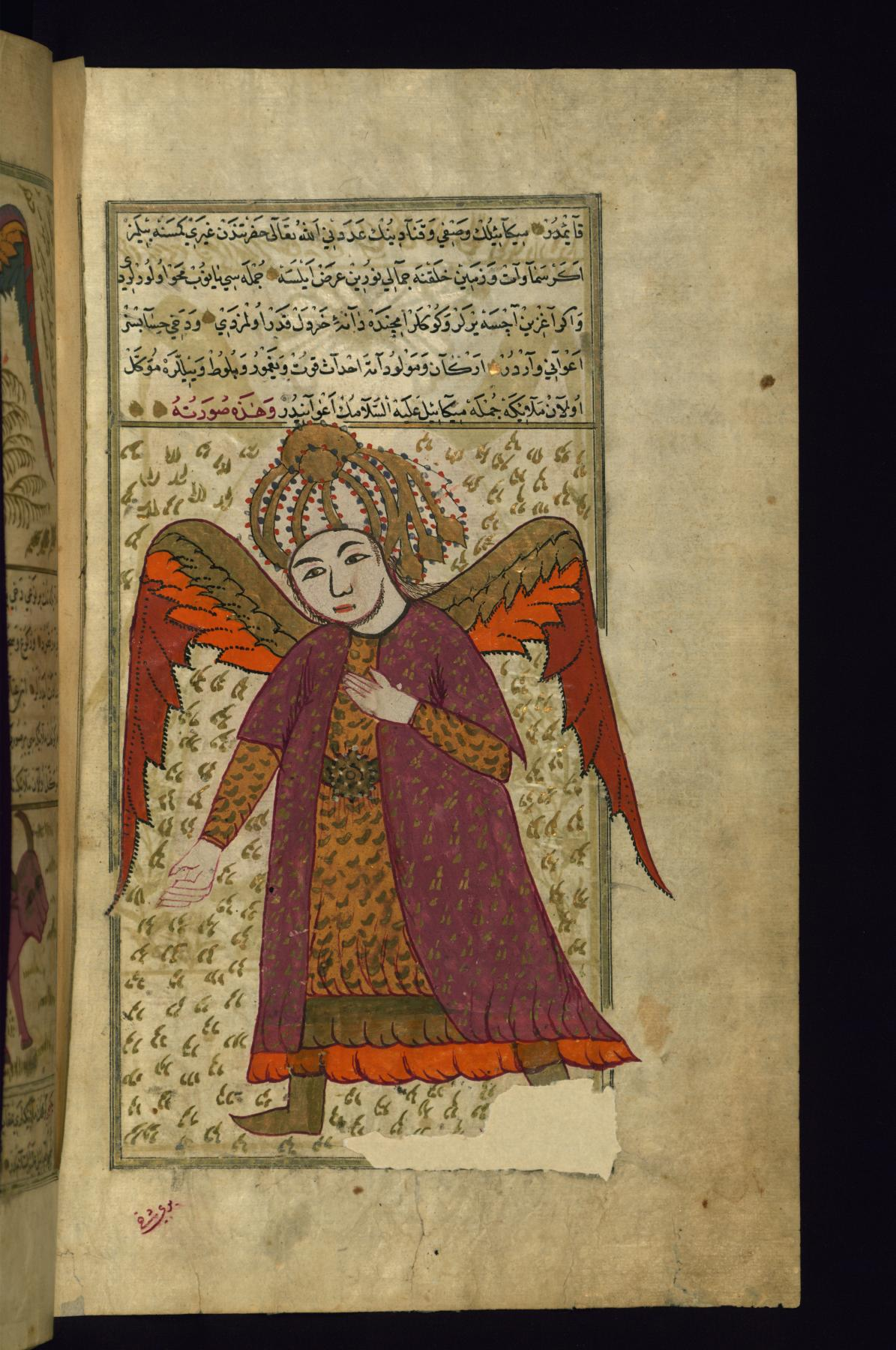 This illustration from Walters manuscript W.659 depicts the Archangel Michael (Mika'il).